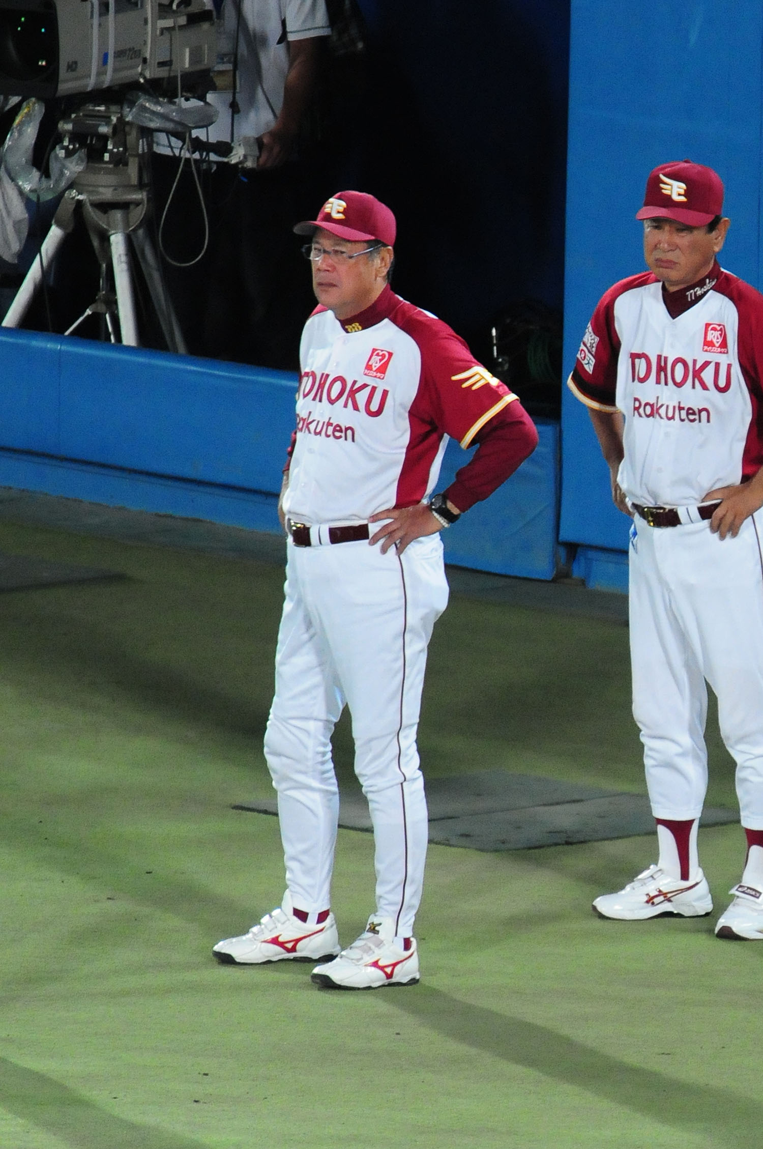 Kōichi Tabuchi, coach of the Tohoku Rakuten Golden Eagles, at Akita Prefectural Baseball Stadium.